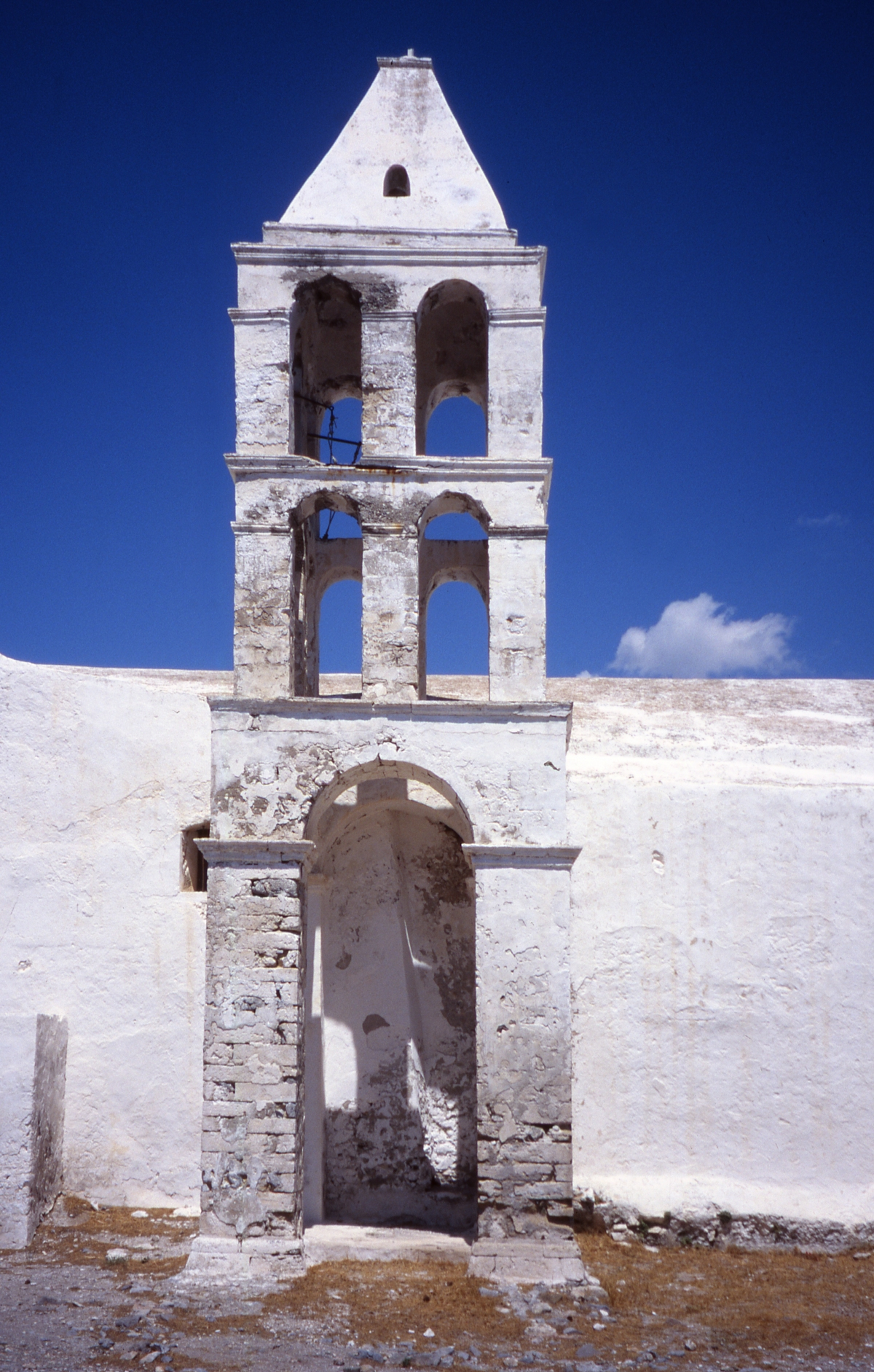 Bell Tower in Hora, Island of Kythira